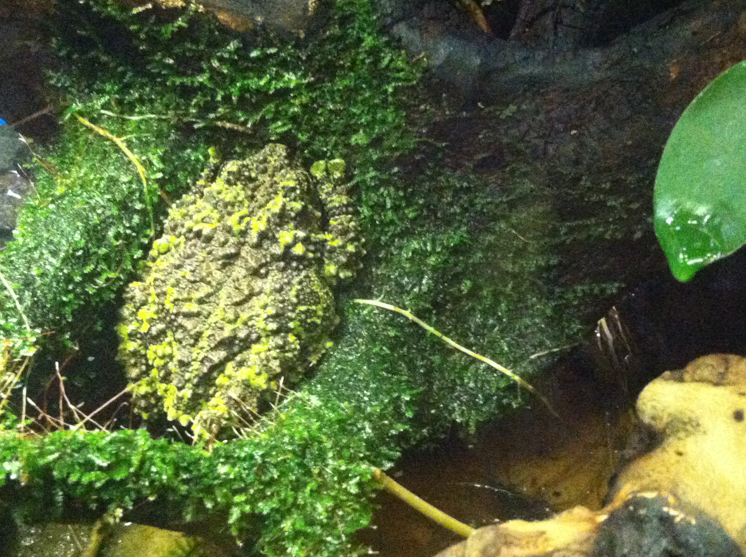 Mossy frog displaying camouflage adaptations